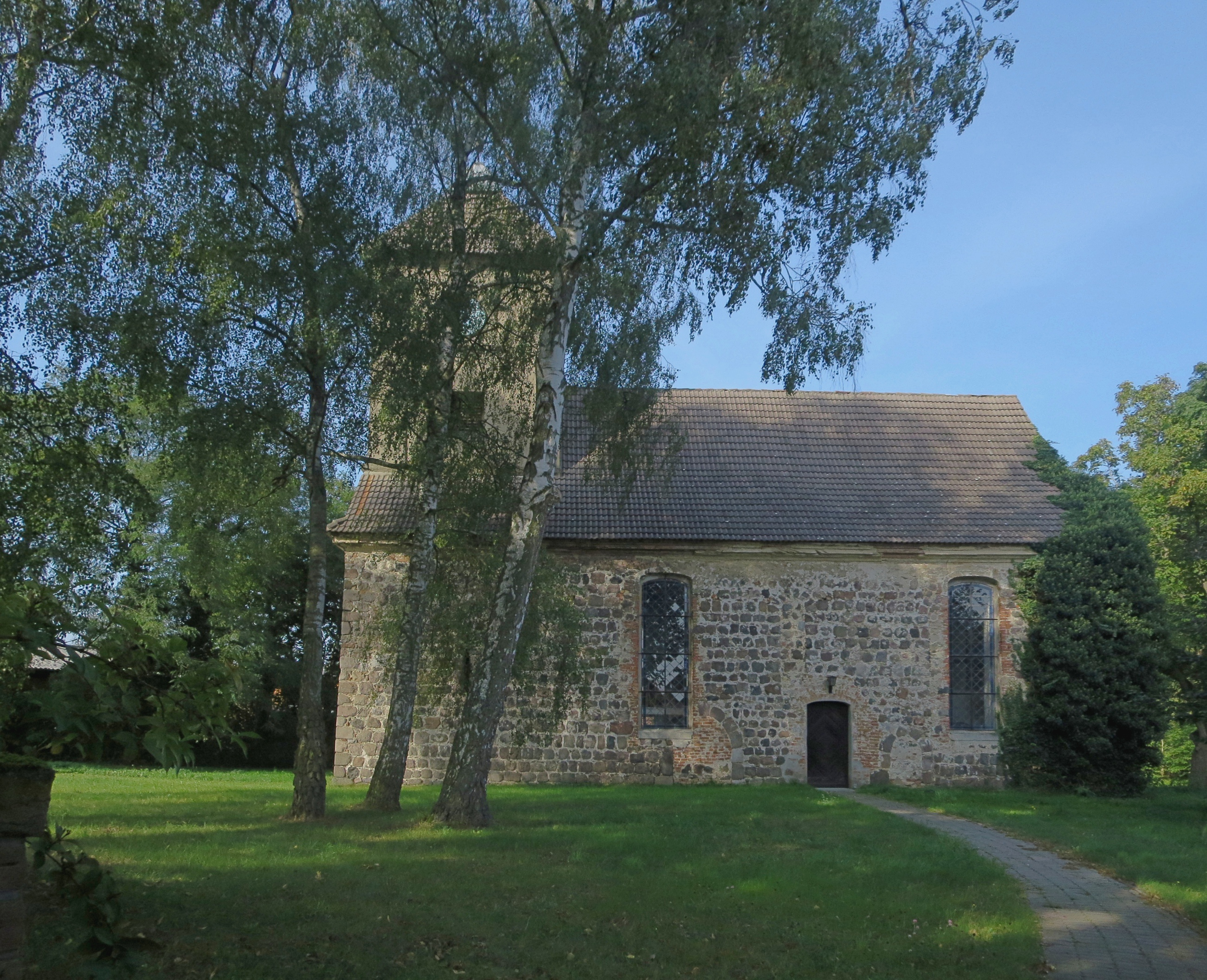 Zabelsdorf Church, Zehdenick municipality, Oberhavel district, Brandenburg state, Germany